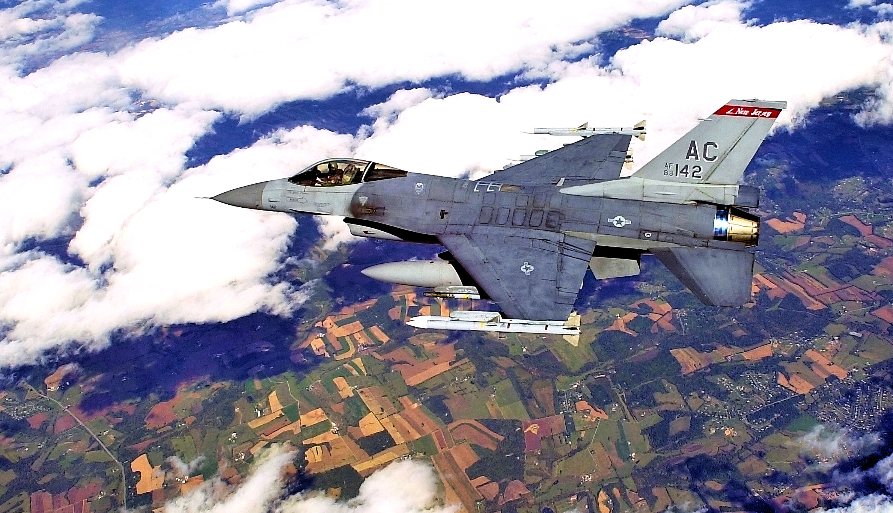 An F-16C Fighting Falcon from the New Jersey Air National Guard’s 177th Fighter Wing flies a combat air patrol mission in the Northeastern United States in support of Operation Noble Eagle. More than 11,000 airmen -- the majority Air National Guard and Air Force Reserve -- have generated more than 7,500 sorties to patrol American skies 24/7 since Sep. 11. Aircraft was retired to AMARC as FG0557 Sep 2008 (U.S. Air Force photo by Master Sgt. Don Taggart)